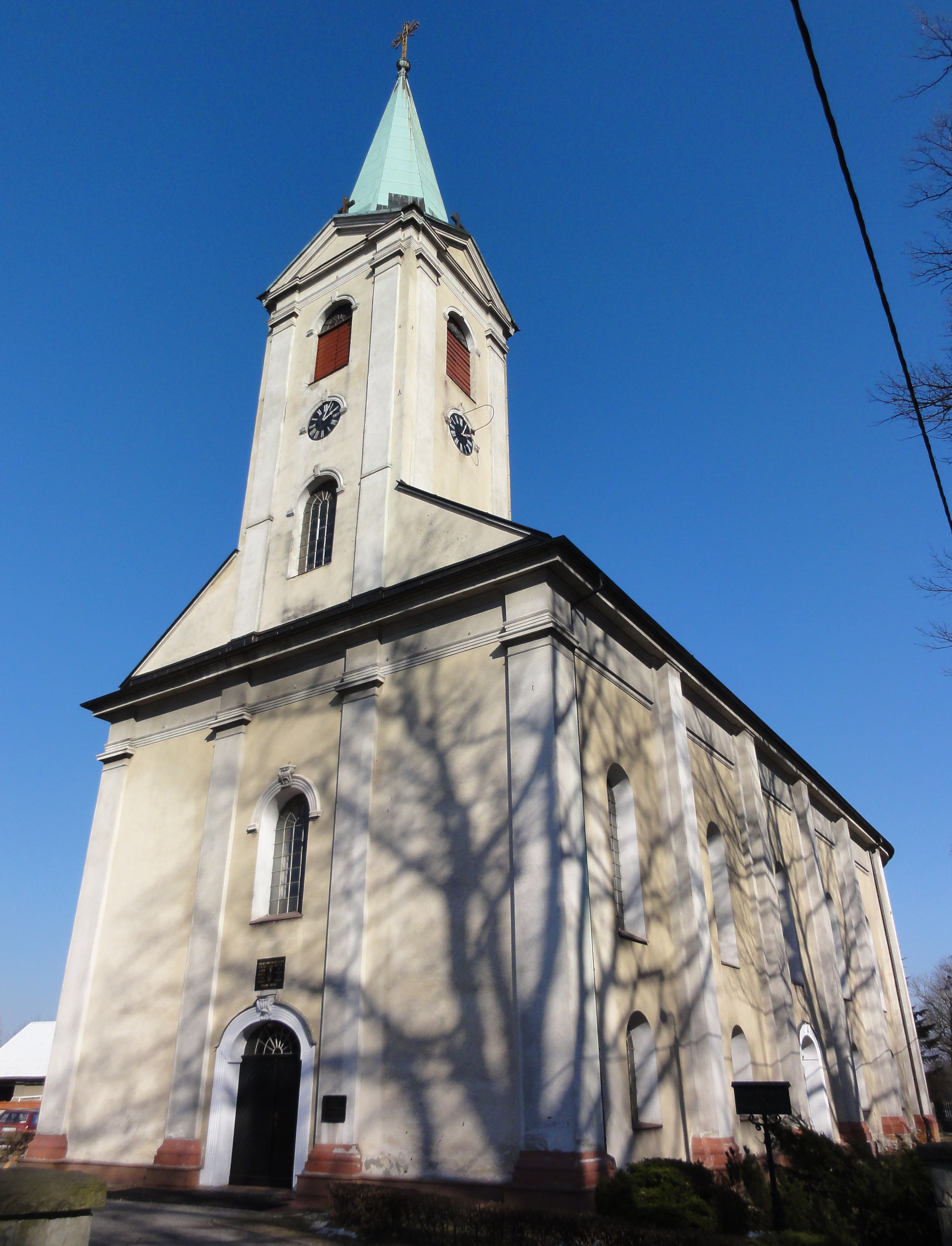 Lutheran church in Drahomischl